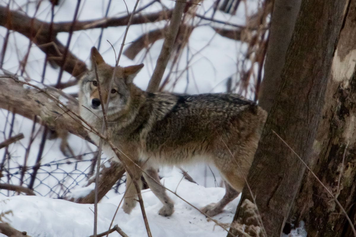 Yorkies yummy in my tummy. Canon 60D 400 mm lens